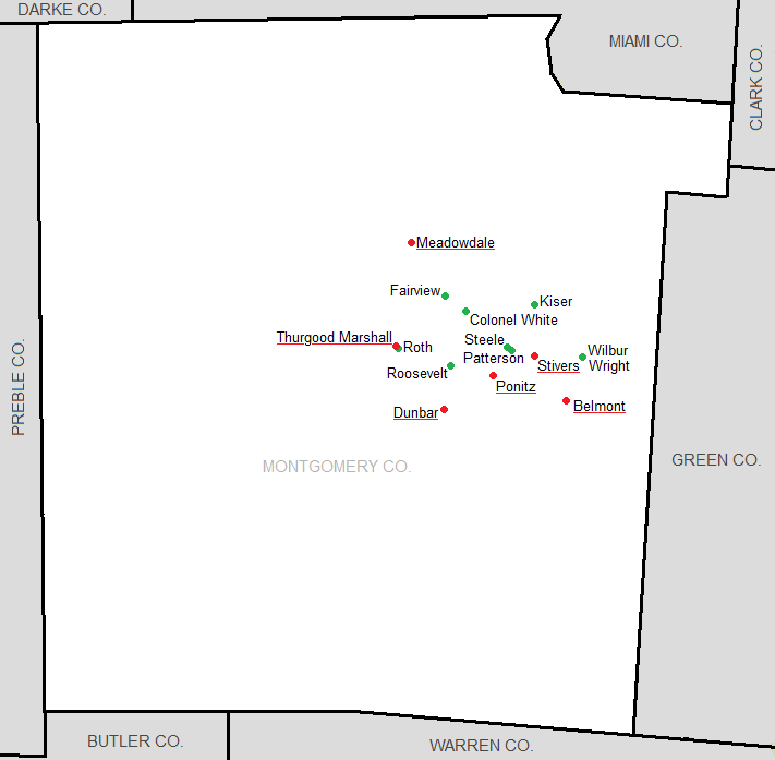 Map showing the current and previous members of the DCL.